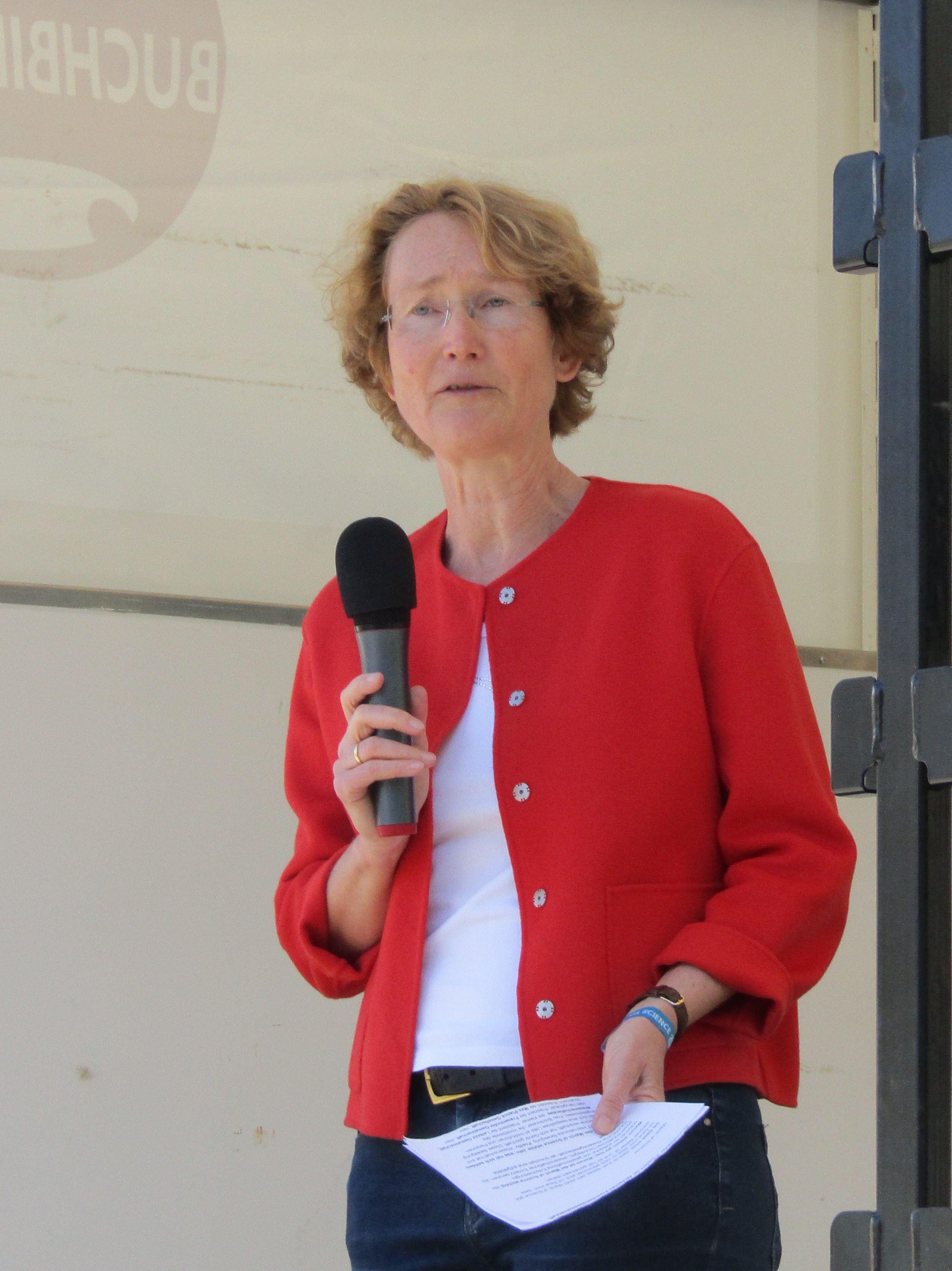 Katrin Böhning-Gaese speaking at March for Science 2018